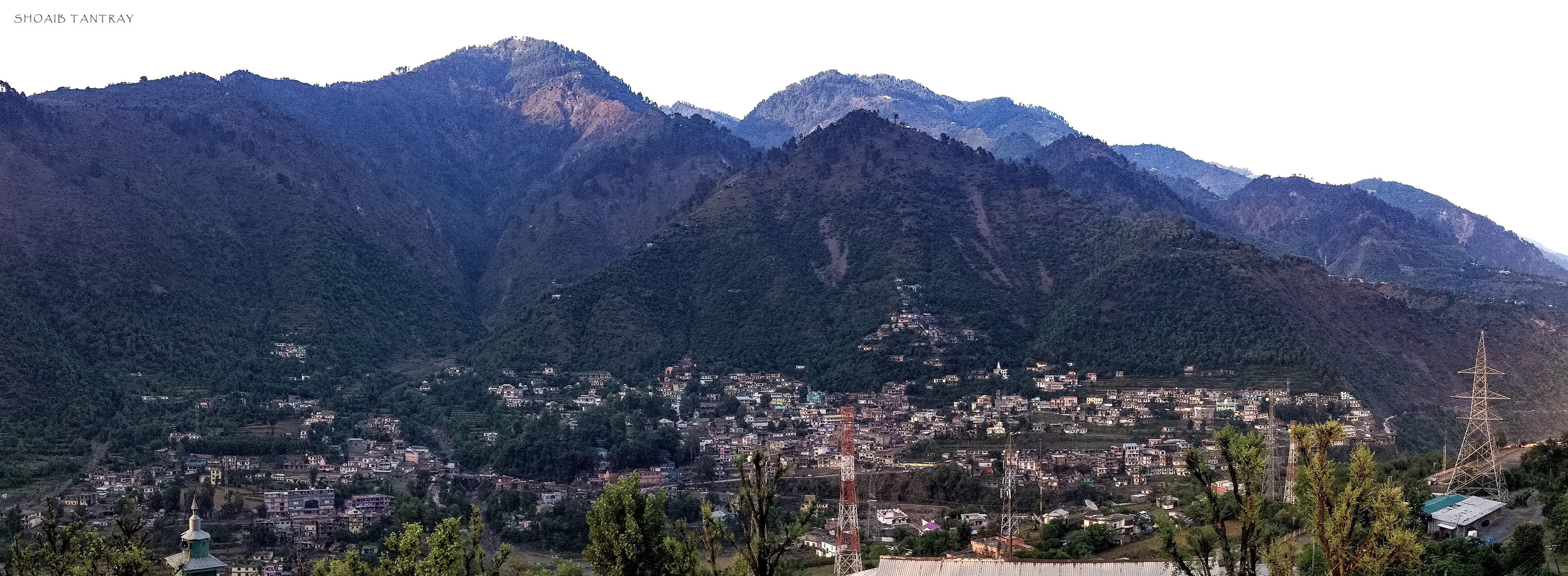 Ramban